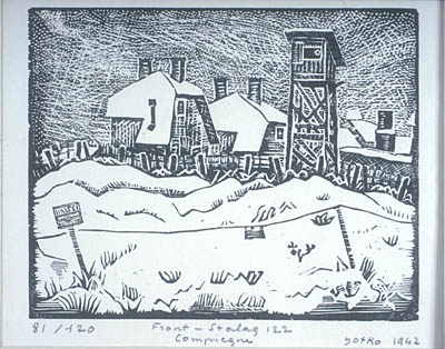 Linocut on paper, number 81 of 120, 12.3 x 15.3 cm Inscribed, lower middle: Front-Stalag 122, Compiegne. Signed and dated, lower right: Gotko, 1942 Beit Lohamei Haghetaot, Museum Number 88. Donated by Isis Kischka, Paris, 1970